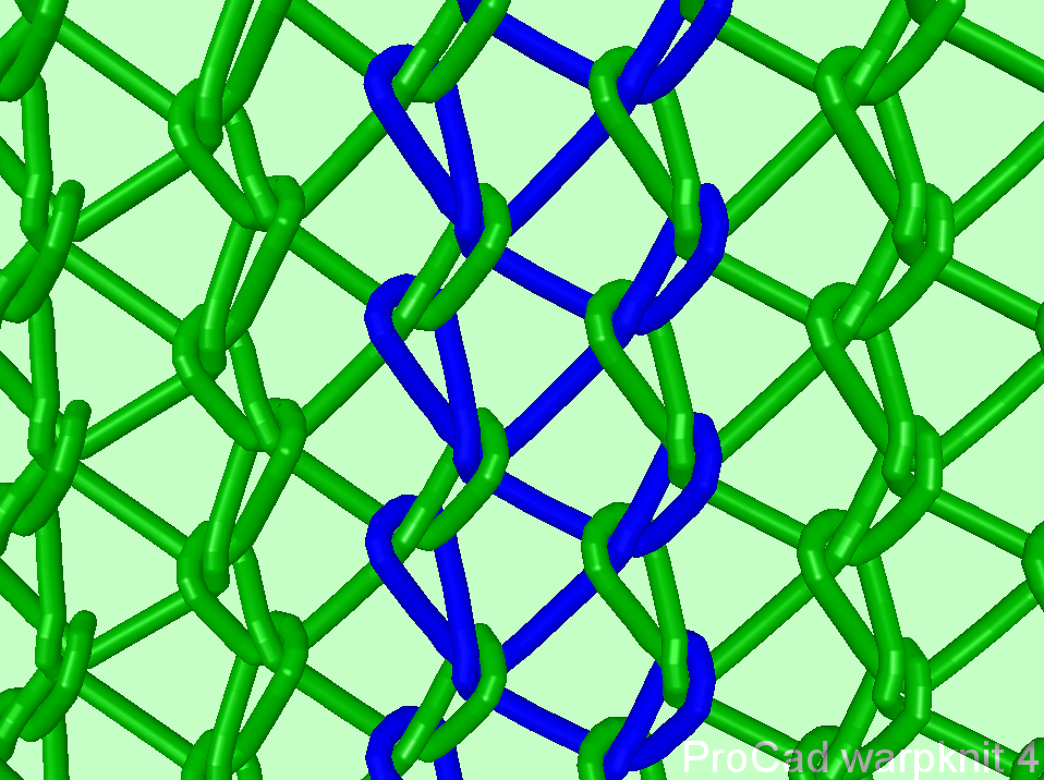 Warp knitting: Tricot (schematic)